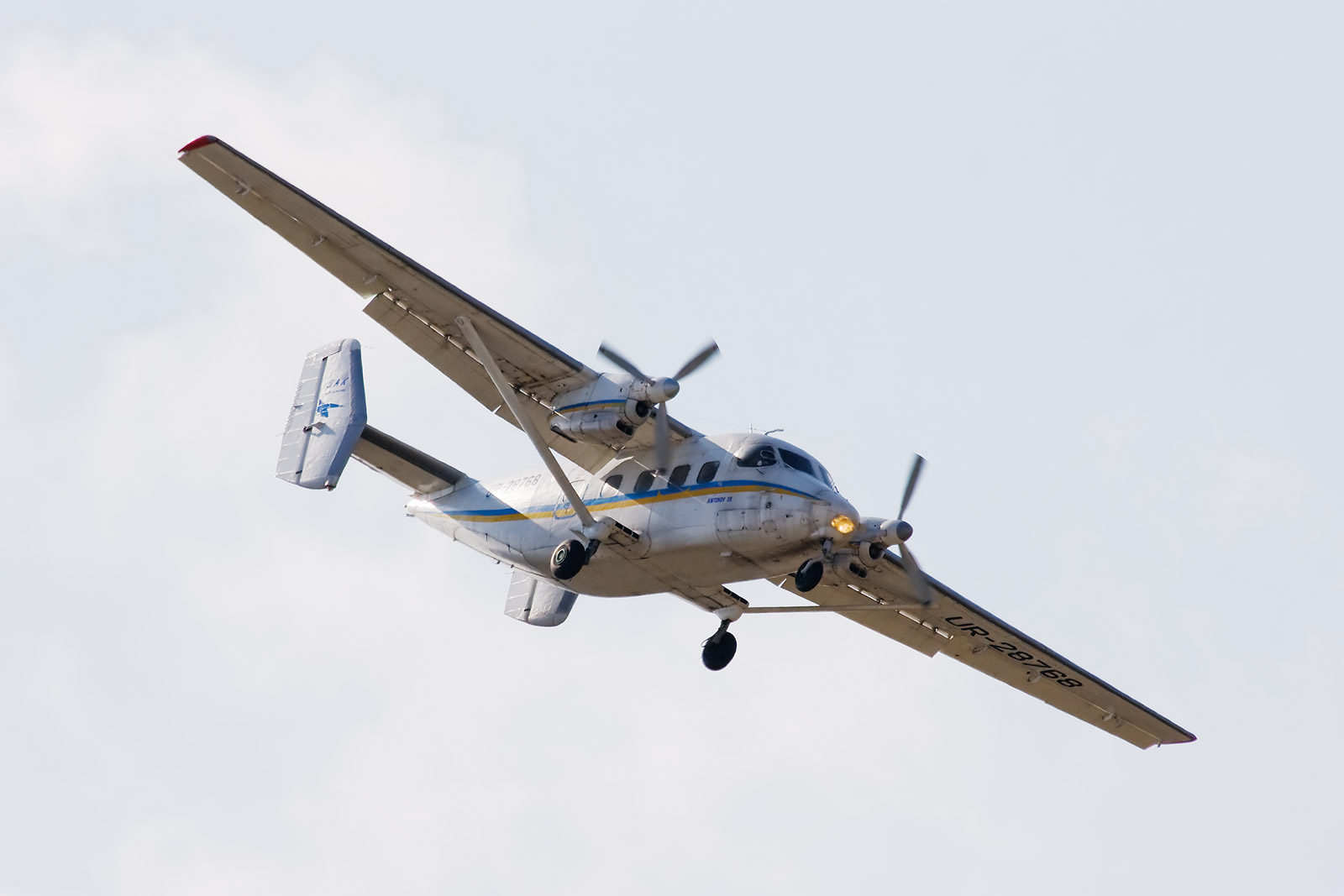 Antonov An-28 at Gostomel airport, Ukraine